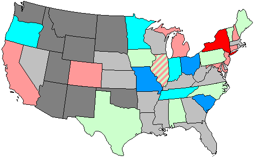 Summary of party change of U.S. house seats in the 1878 House election. Stripes indicate a tie between the gains of two or more parties. Legend: 6+ Democratic seat pickup 3-5 Democratic seat pickup 1-2 Democratic seat pickup 1-2 Republican seat pickup 3-5 Republican seat pickup 6+ Republican seat pickup 1-2 Independent seat pickup 3-5 Readjuster seat pickup 1-2 Greenback seat pickup 3-5 Greenback seat pickup Note: years ending in 2 may have inconsistent results due to redistricting.